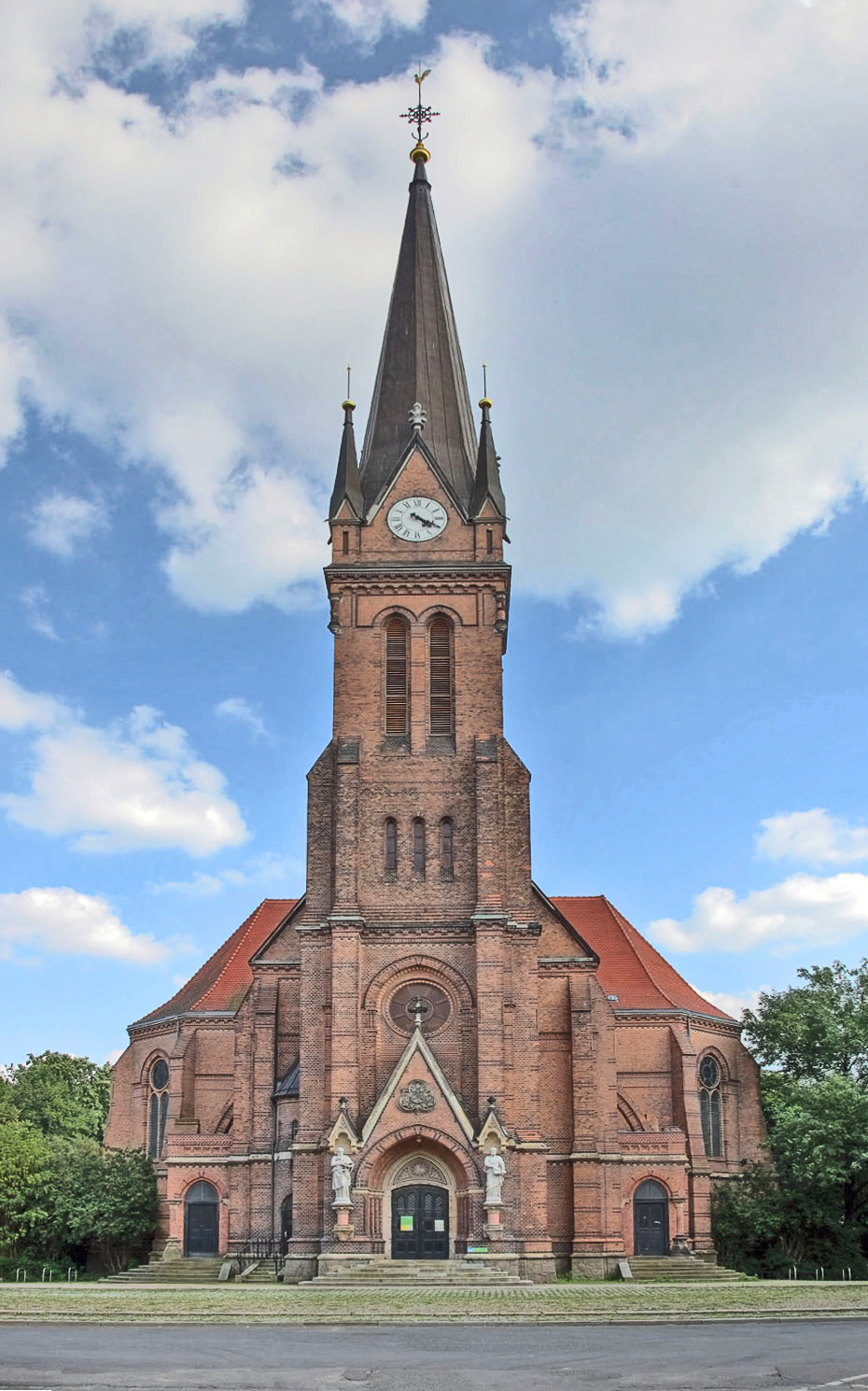 Luther Church in Leipzig, Ferdinand-Lassalle-Strasse